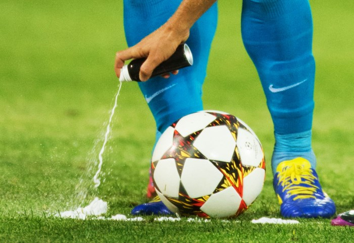 Исчезающий спрей